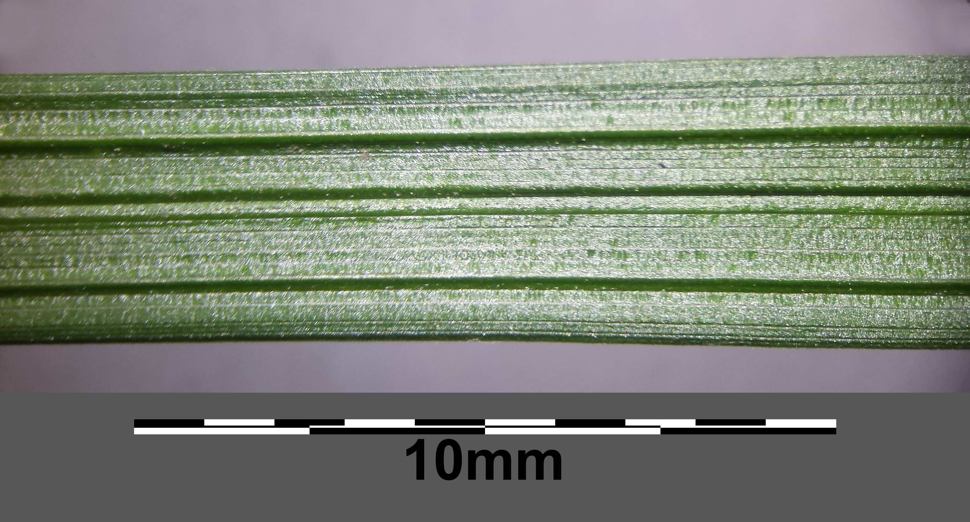 Double-folded leaf Taxonym: Carex sylvatica ss Fischer et al. EfÖLS 2008 ISBN 978-3-85474-187-9 Location: Michelberg, district Korneuburg, Lower Austria - ca. 330 m a.s.l. Habitat: Carpinion betuli